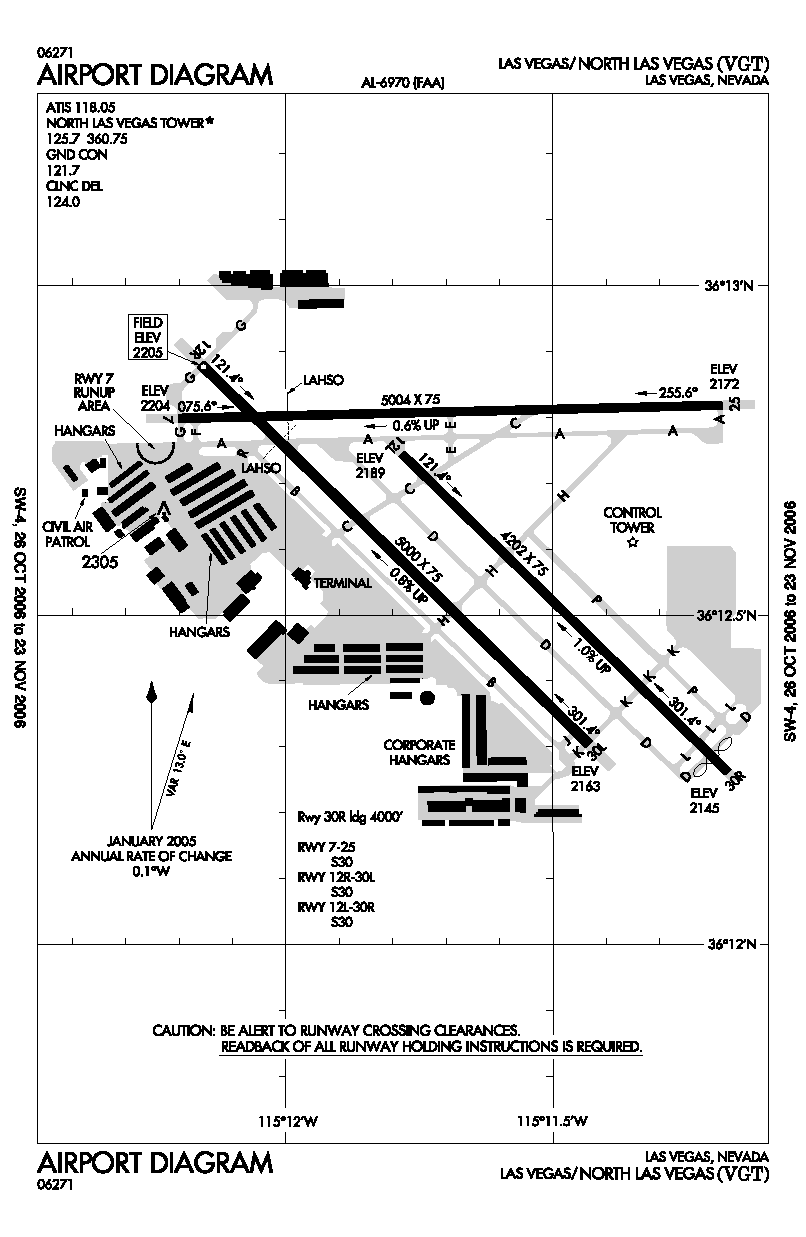 FAA airport diagram for LGT (North Las Vegas Airport) in Nevada, United States.